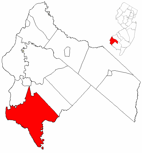 Map of Salem County highlighting Lower Alloways Creek Township